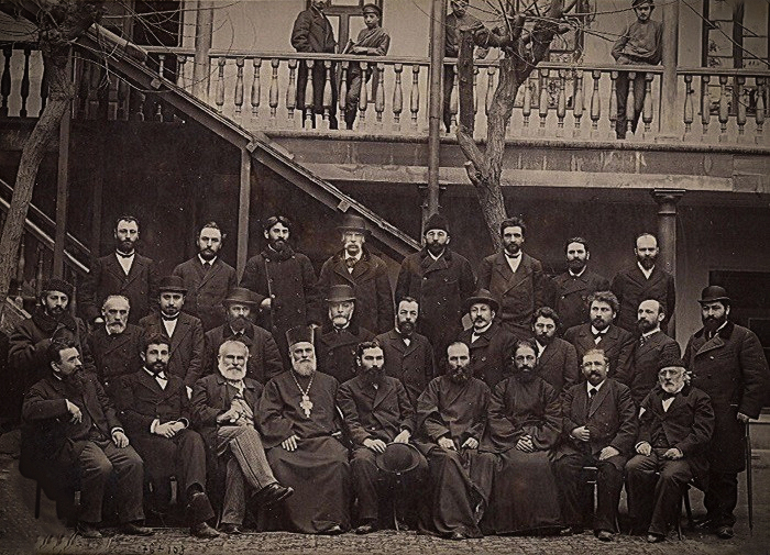 Staff of Armenian Nersisyan School in Tbilisi with writer Perch Proshyan (1837-1907)